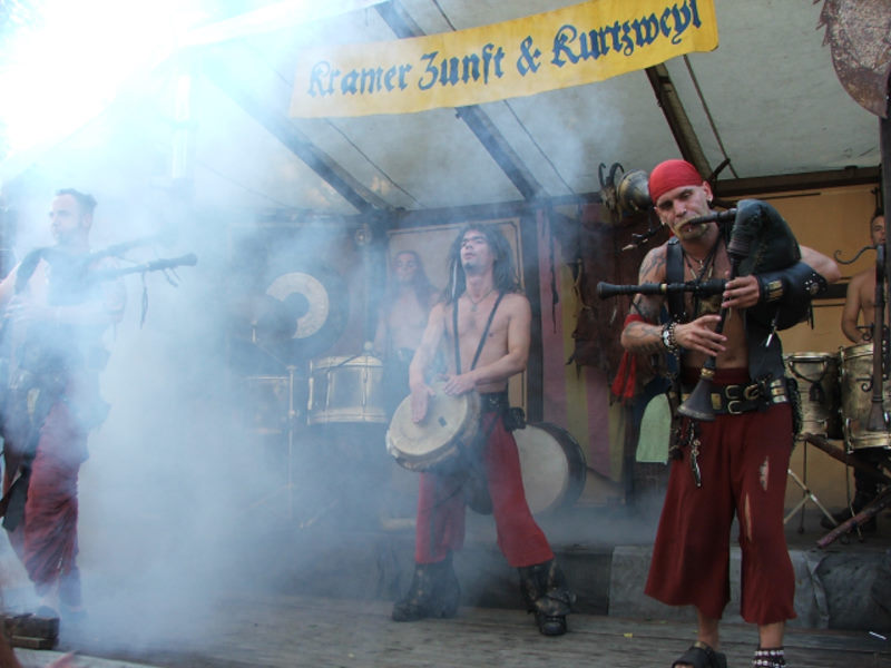 Cultus ferox